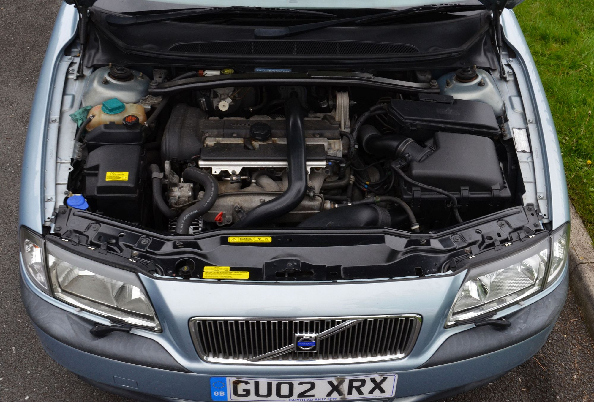 Volvo S80 2.4T 2002 Blue, engine bay.